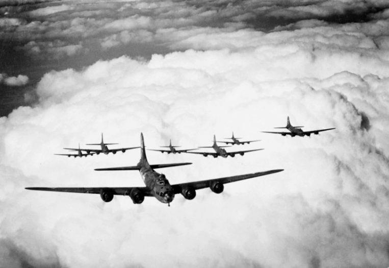 B-17s in formation above the clouds.